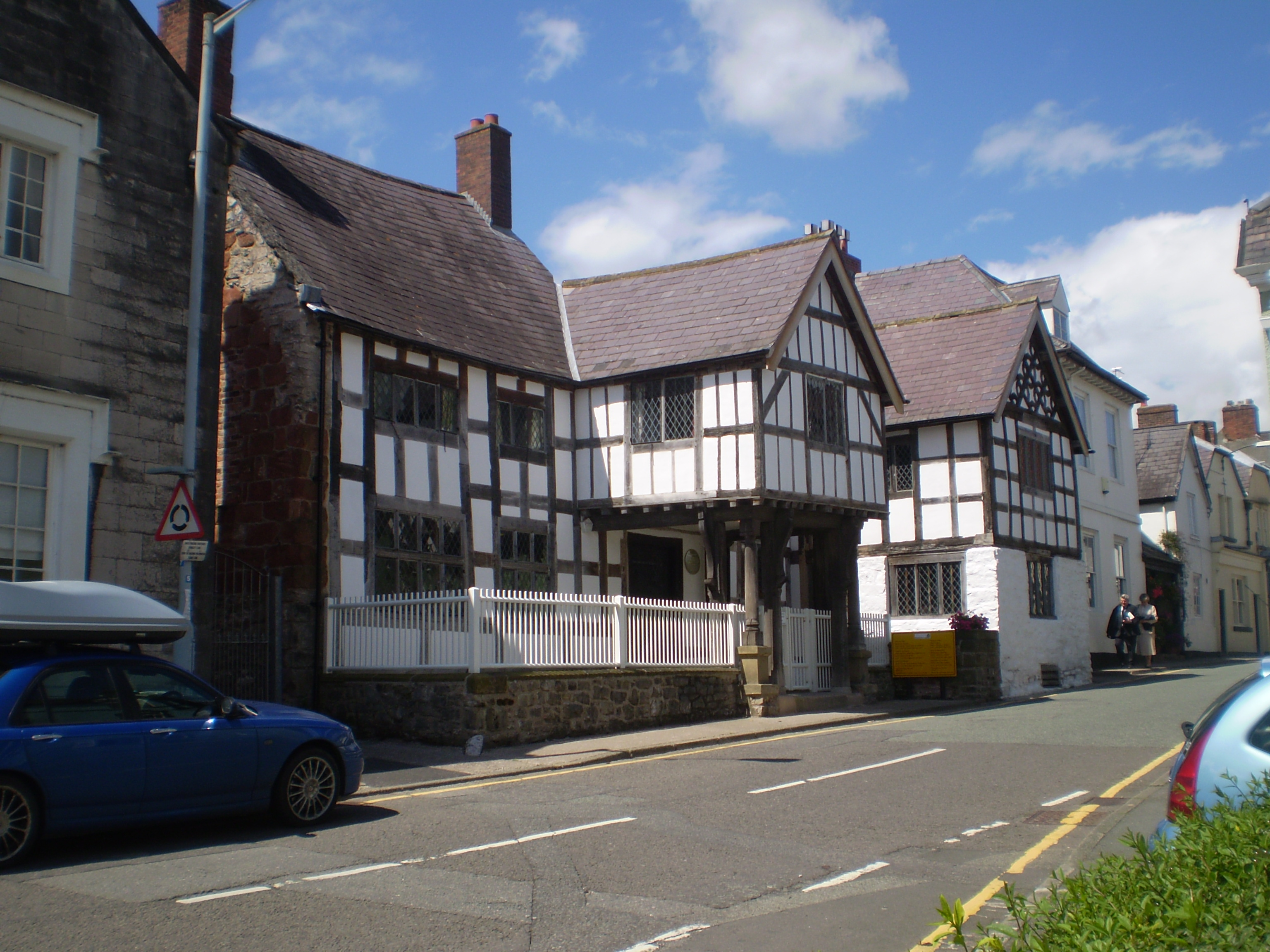 Front of Nantclwyd-y-dre, Castle Street, Ruthin, Denbighshire, the oldest-known town house in Wales. Timbers have been dated dendrochronologically to 1435.